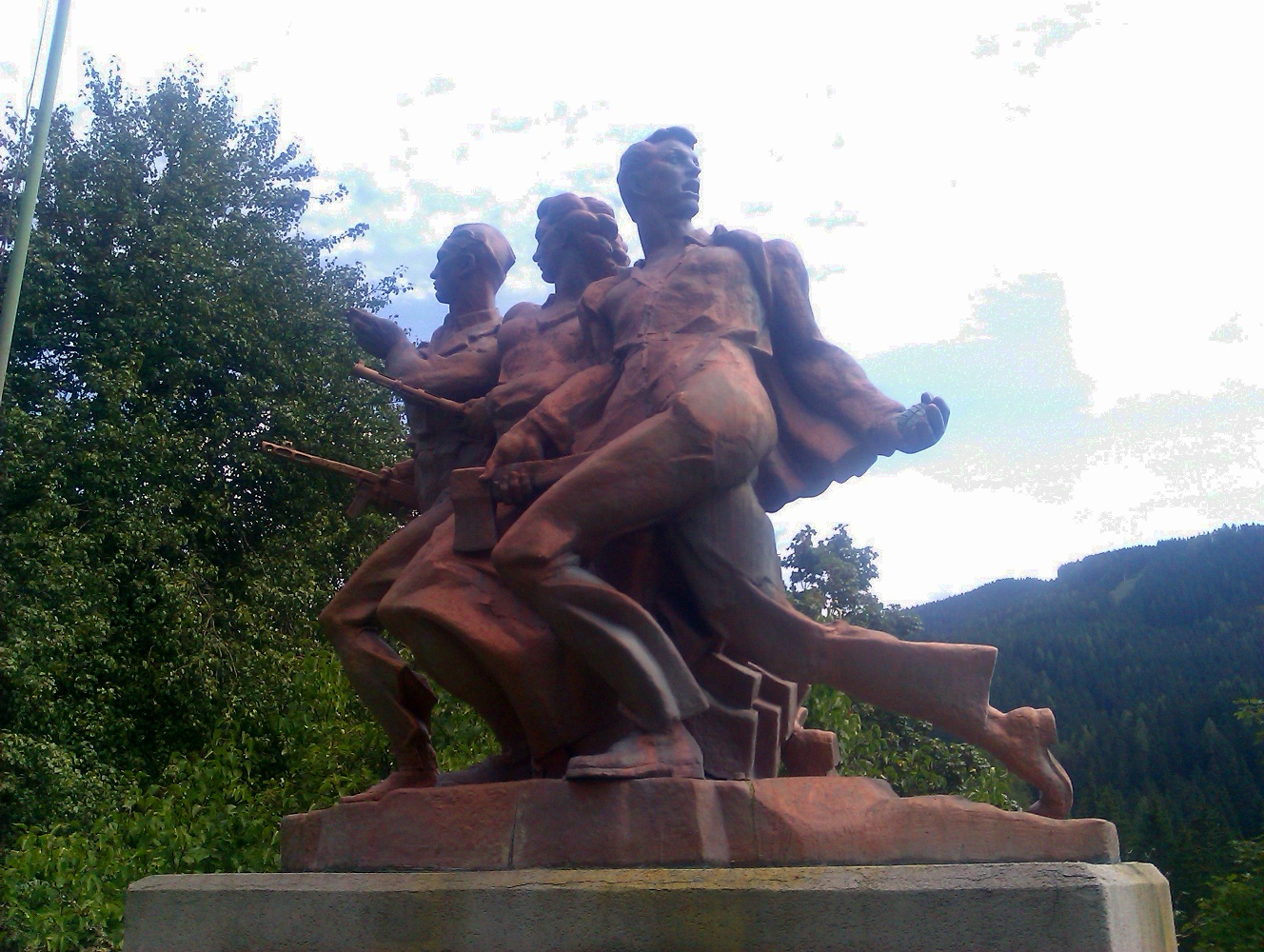 Peršman Memorial in Carinthia